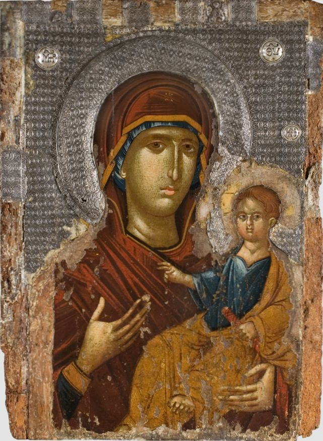 The icon forms a pair with another icon, Annunciation to the Blessed Virgin Mary.